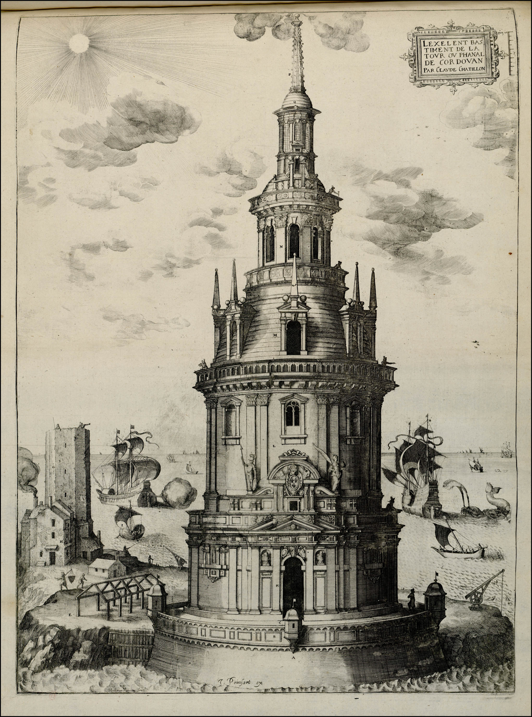 Drawing of the Cordouan lighthouse as engraved by Jacques Poinssart and published in the 1655 edition of Topographie françoise